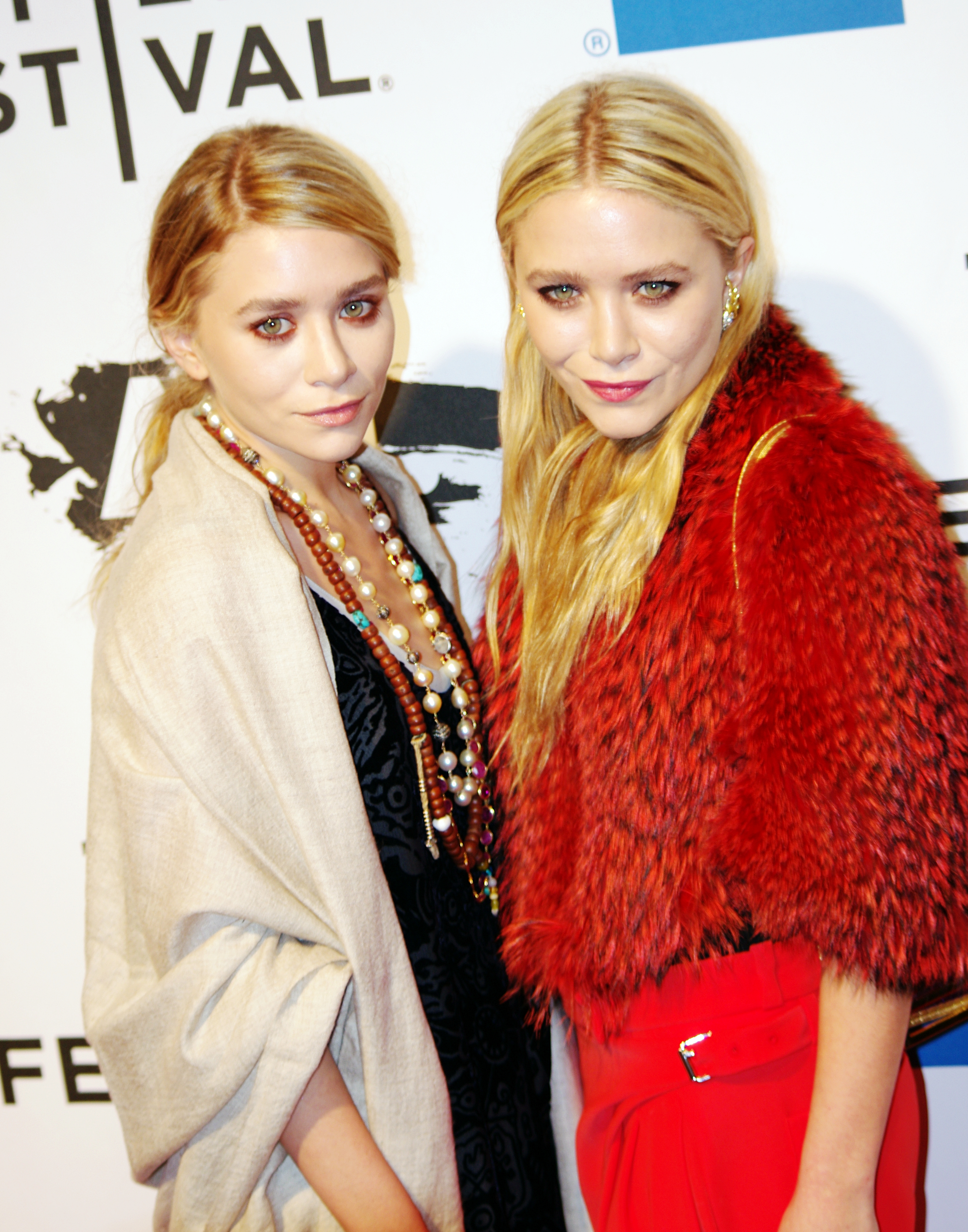 (About David Shankbone)